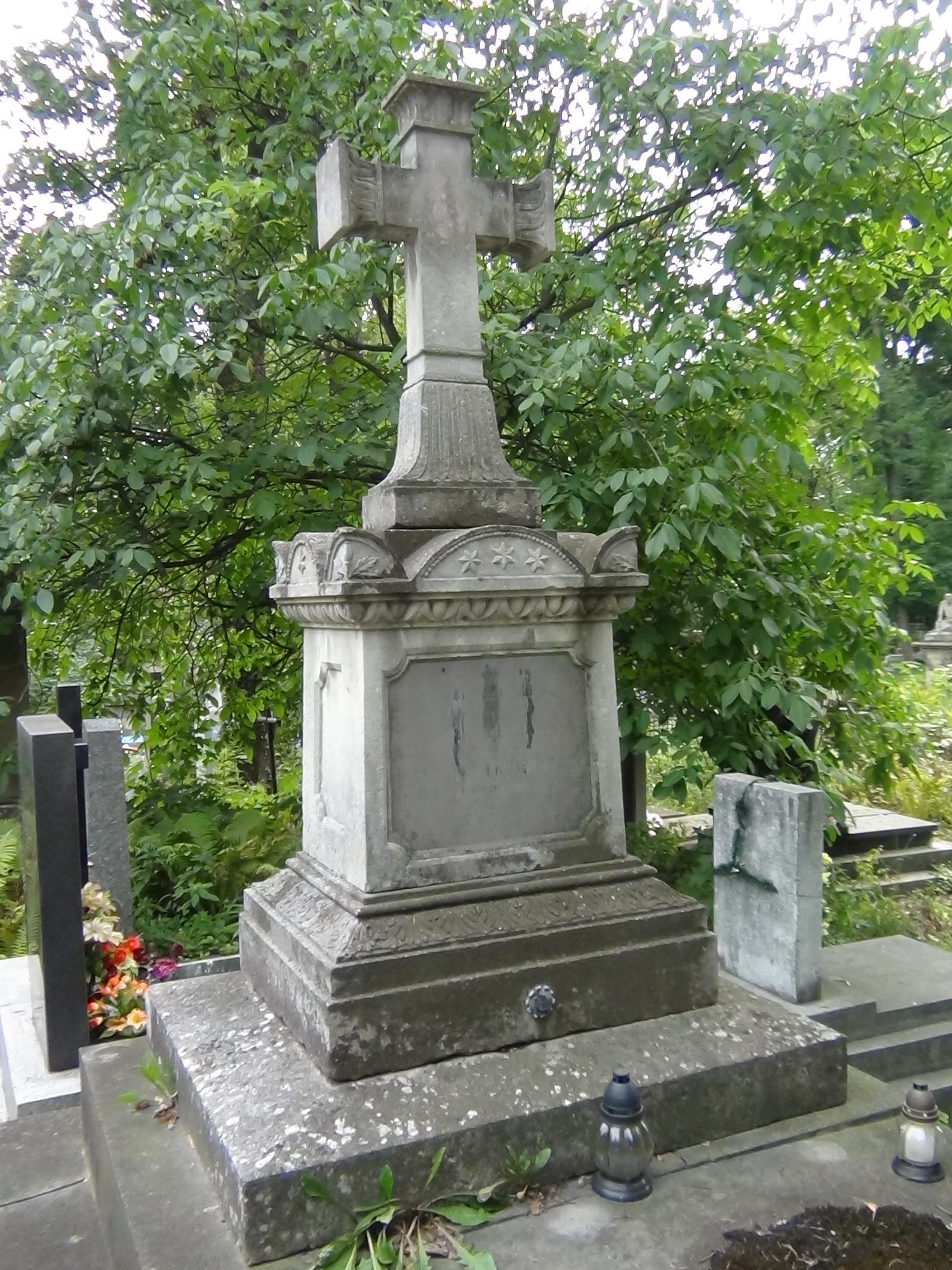 Grave of Ivan Bartoshevsky on Lychakiv cemetery in Lviv, field 51